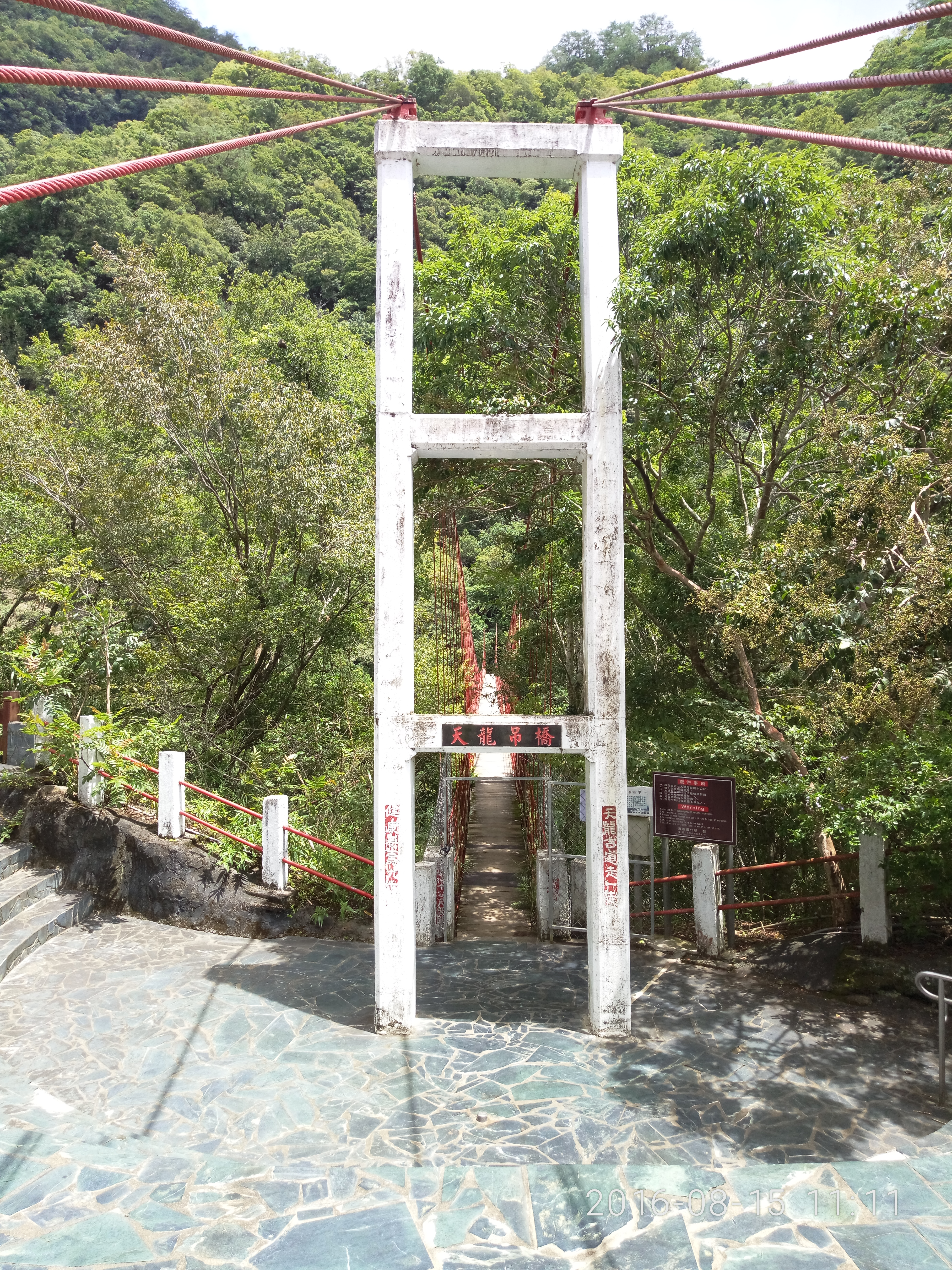 Tien-Long Suspension Bridge